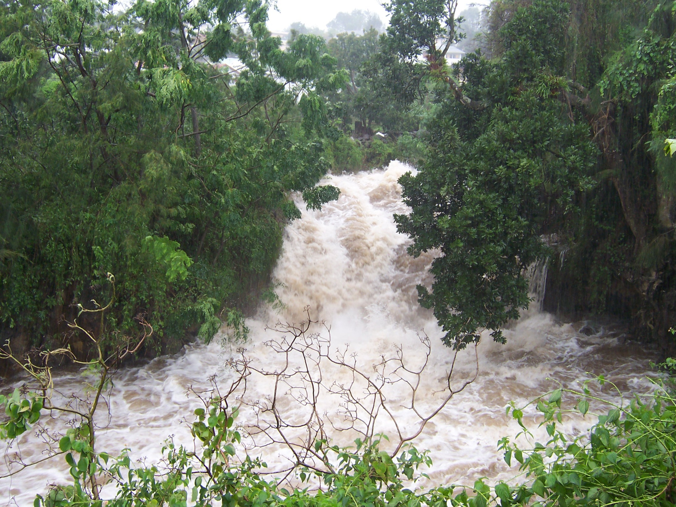 The Ravine blanche in spate during the typhoon Gamede (Le Tampon, Réunion island)